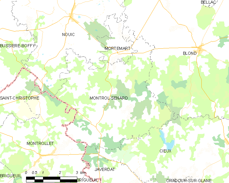 Map of French municipality Montrol-Sénard